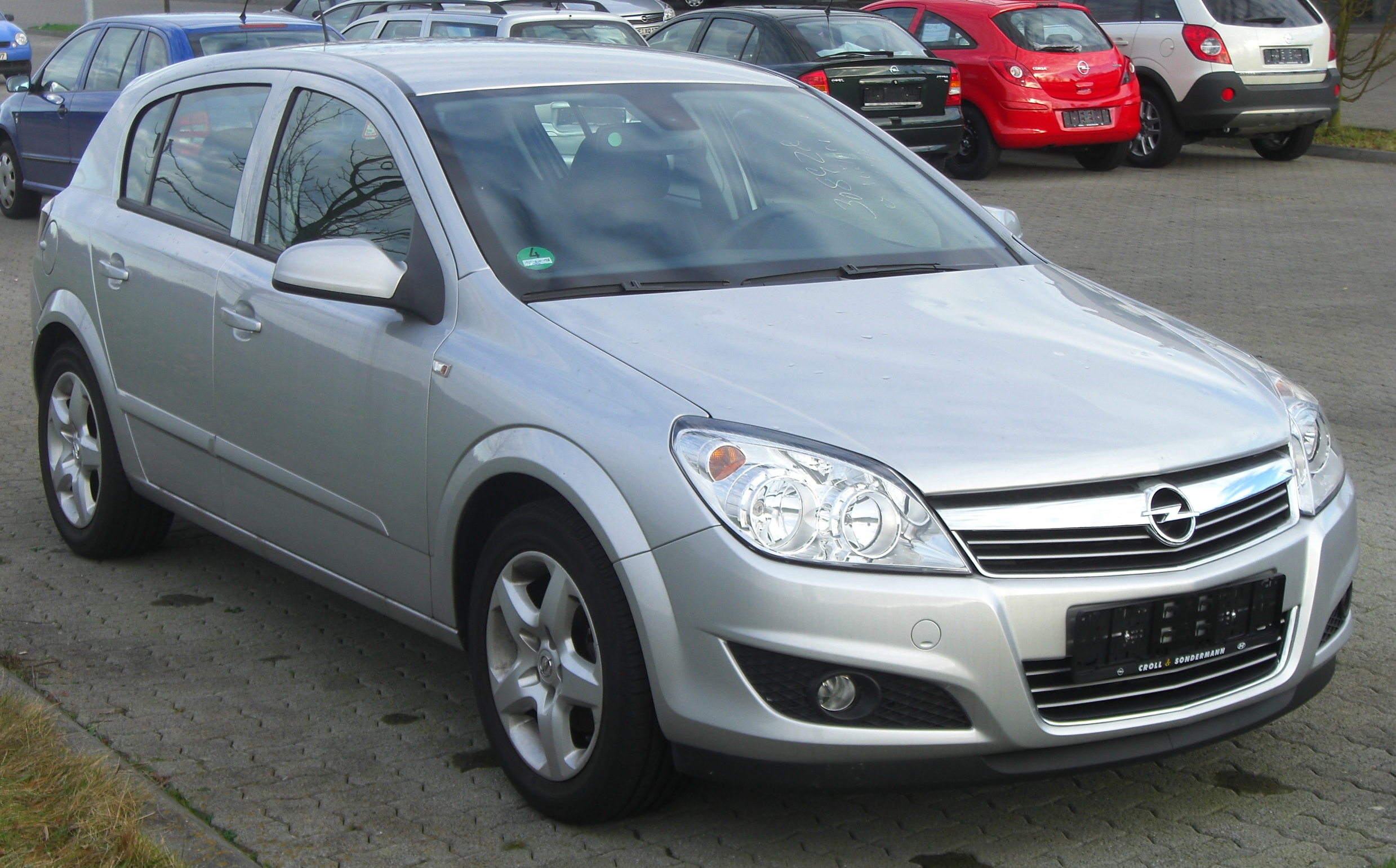 Description: Opel Astra H Source: Matthias Other Version(s)